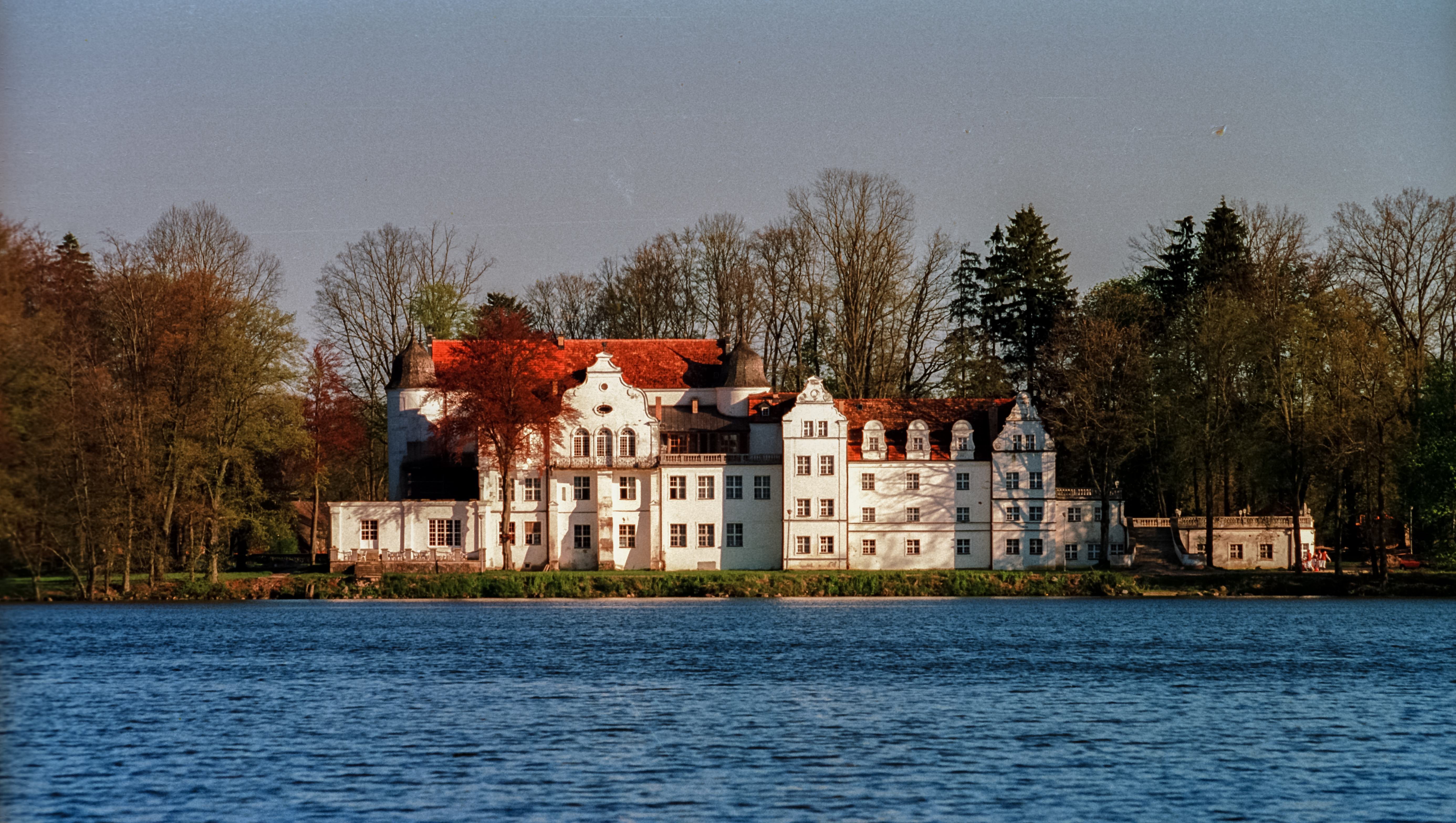 Poland, Krag Castle